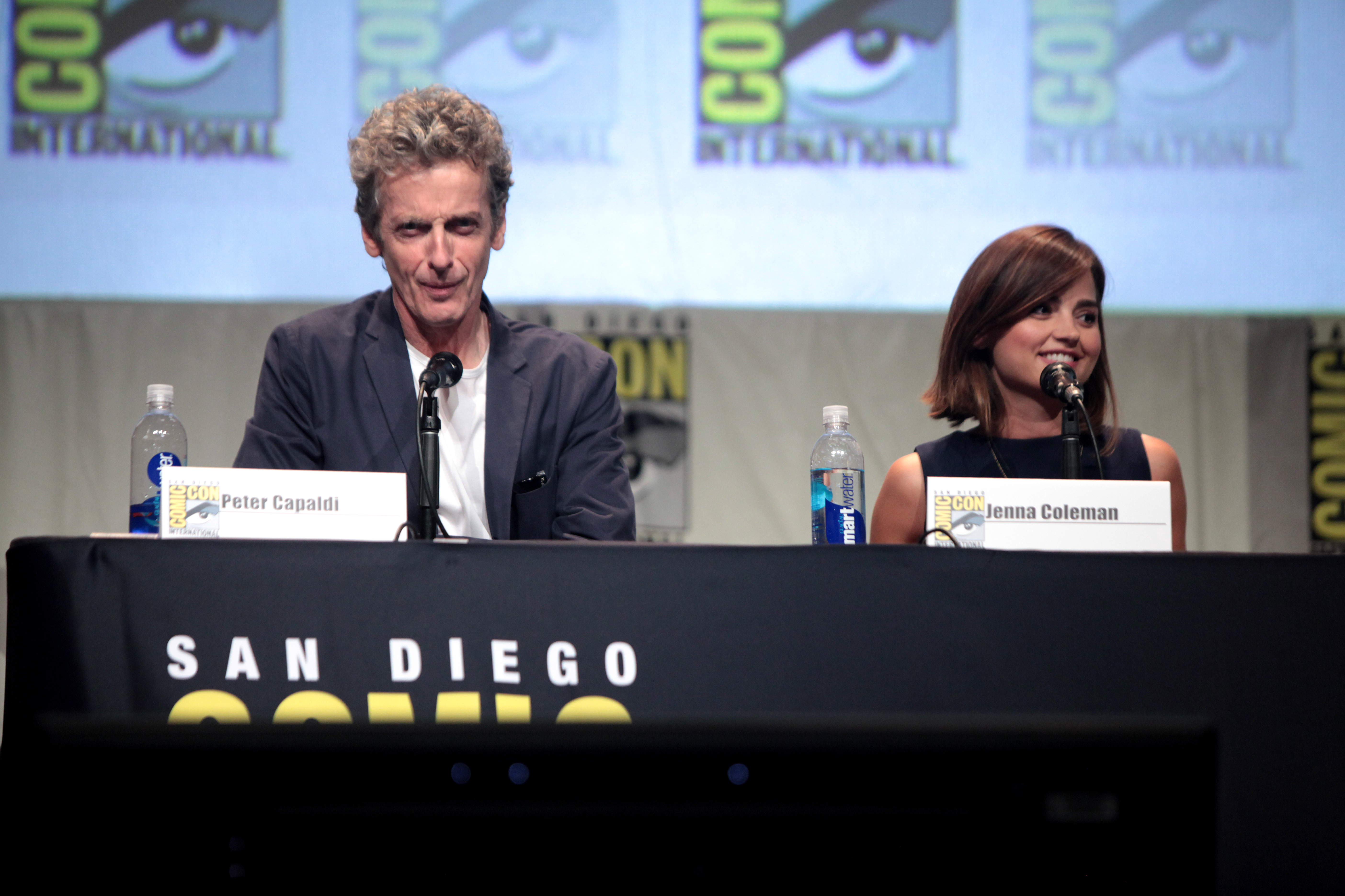 Peter Capaldi and Jenna Coleman speaking at the 2015 San Diego Comic Con International, for "Doctor Who", at the San Diego Convention Center in San Diego, California.